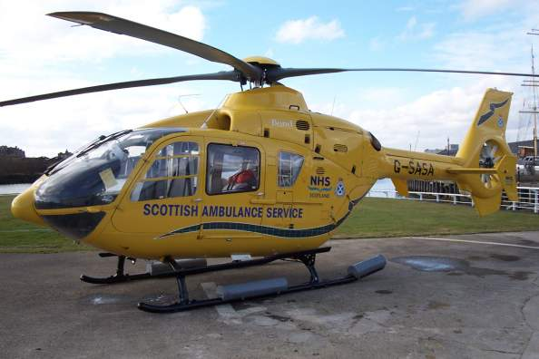 Scottish Ambulance Service Helimed 5. A Eurocopter EC-135 based at Glasgow City Heliport. This particular model of Helicopter is very popular among Helimed operators due to the enclosed 'fenestron' tail-rotor, allowing safer operation in tight, difficult landing areas.